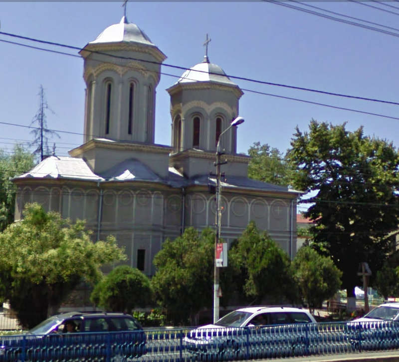 micalaca